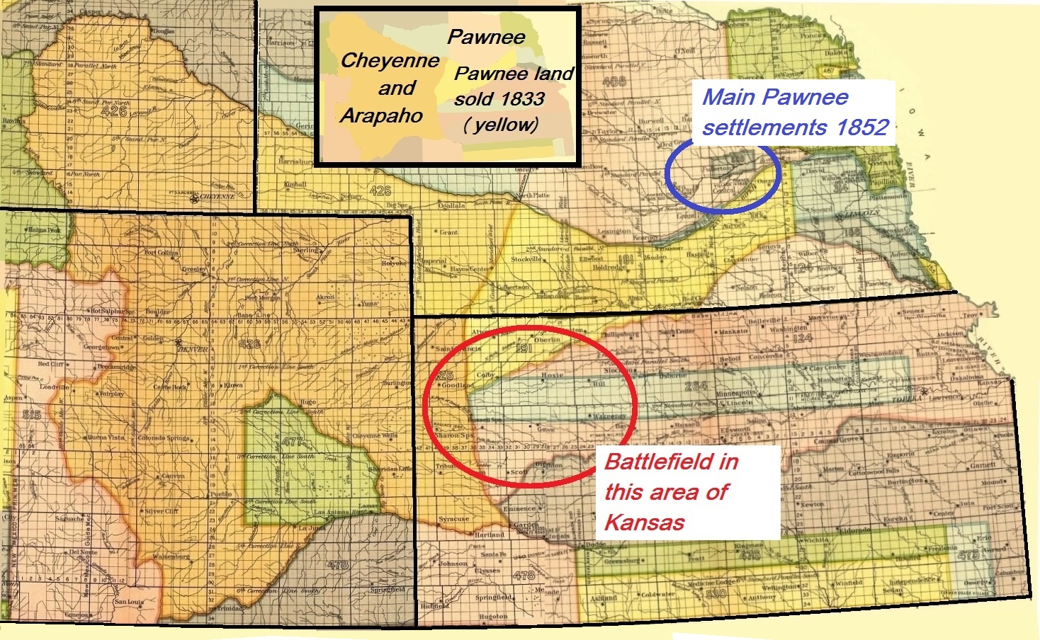 Map with the 1851 Cheyenne and Arapaho territory, the settelements by the Pawnee put in and possible battlefield in 1852. Made mainly for use to the text about the killing of Alights on the Cloud